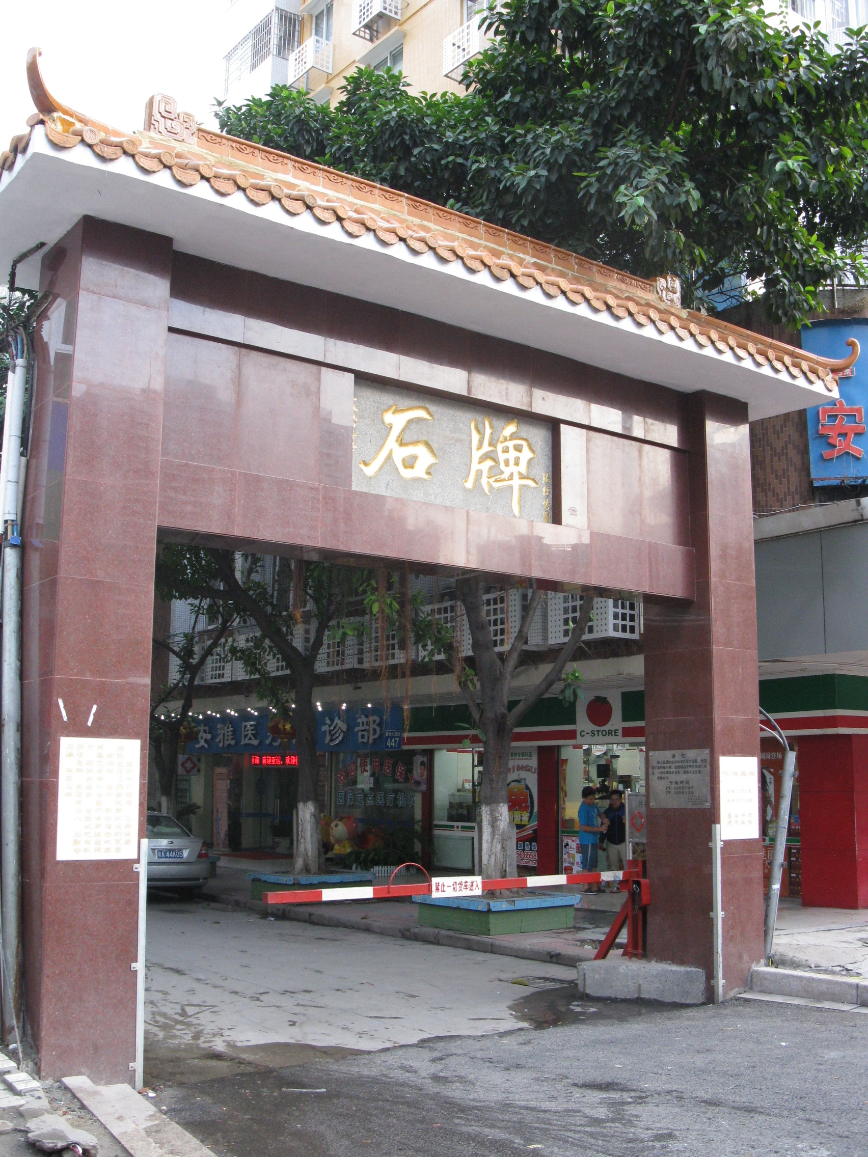 an access to Shipai Village